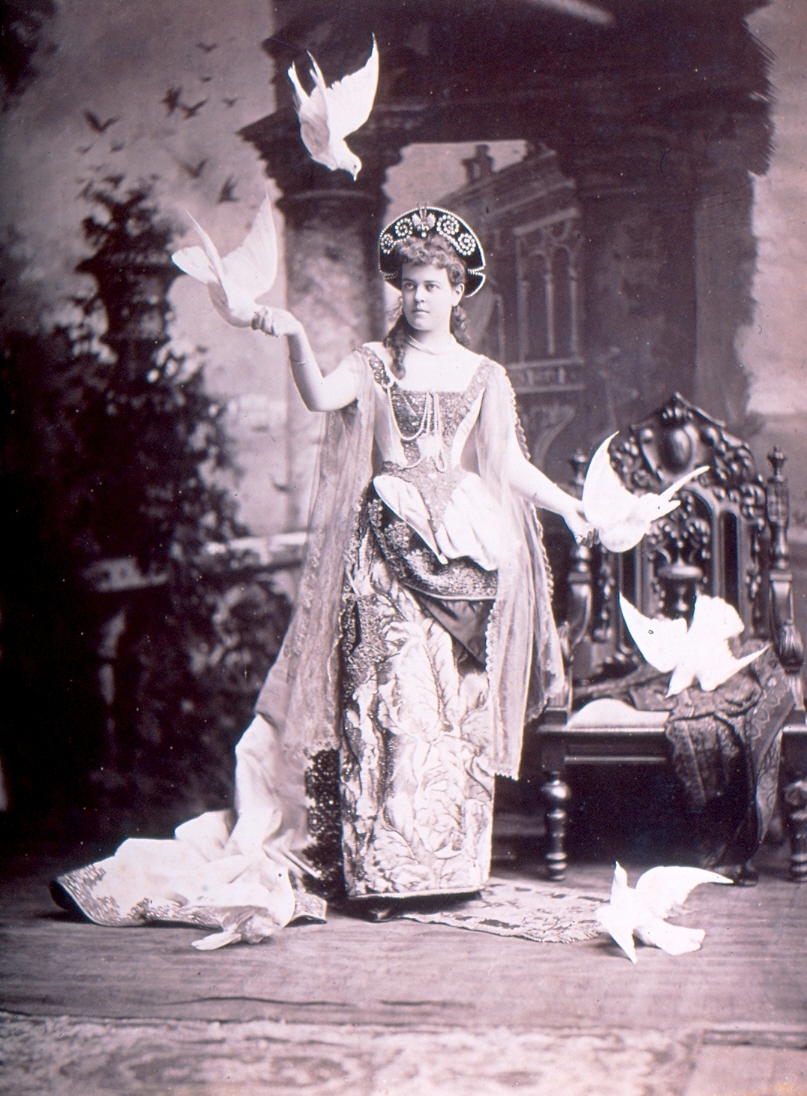 Photograph of Mrs. William K. Vanderbilt in her costume of a "Venetian Renaissance Lady" at the Vanderbilt Ball held at 660 Fifth Avenue, on March 26, 1883